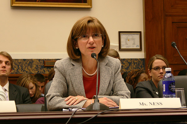 Debra L. Ness testifying at a U.S. Congressional Hearing on the Family and Medical Leave Act (FMLA), July 17, 2009. Ness is the President of the nonpartisan advocacy group the National Partnership for Women & Families.